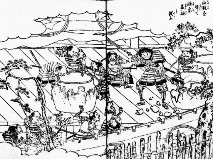 An illustration of Shibata Katsuie who broke water jars in "Ehon-Taikōki". "